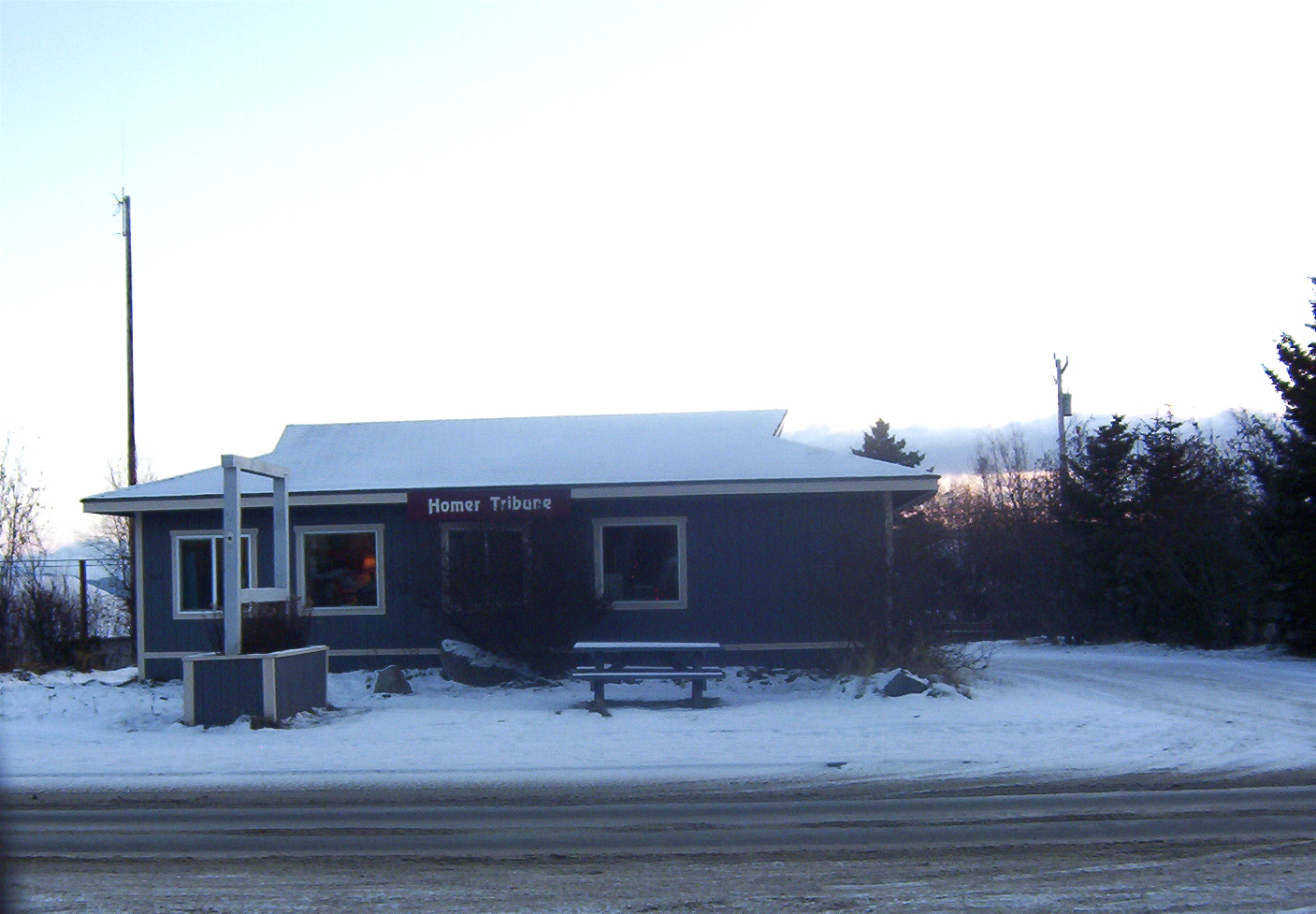 Homer Tribune offices, Pioneer Avenue, Homer, Alaska